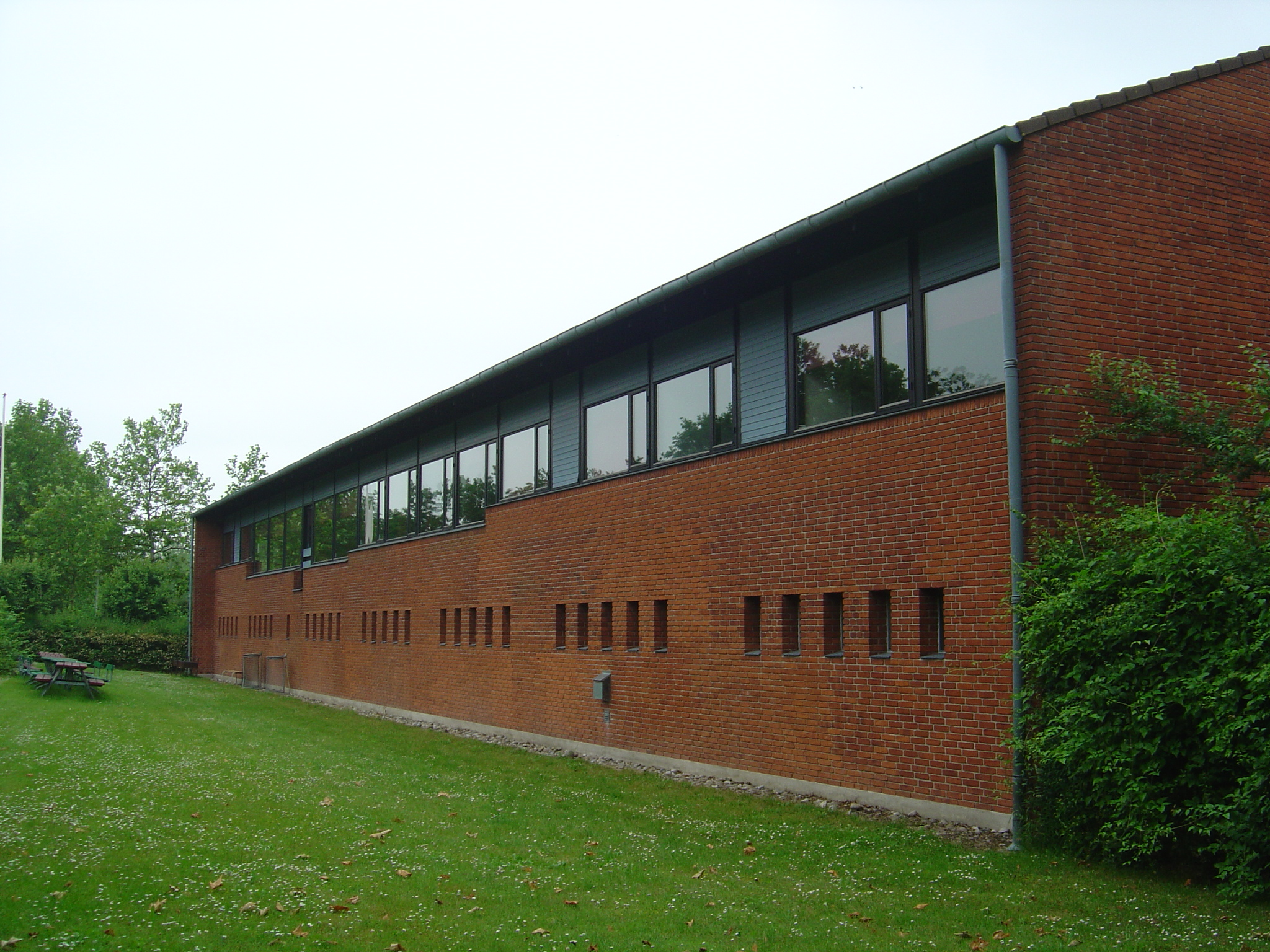 Kastrup Boldklub - the club house for a Danish association football club on Røllikevej, Amager, Copenhagen. Seen from the southeast side, next to Gammel Kirkevej.